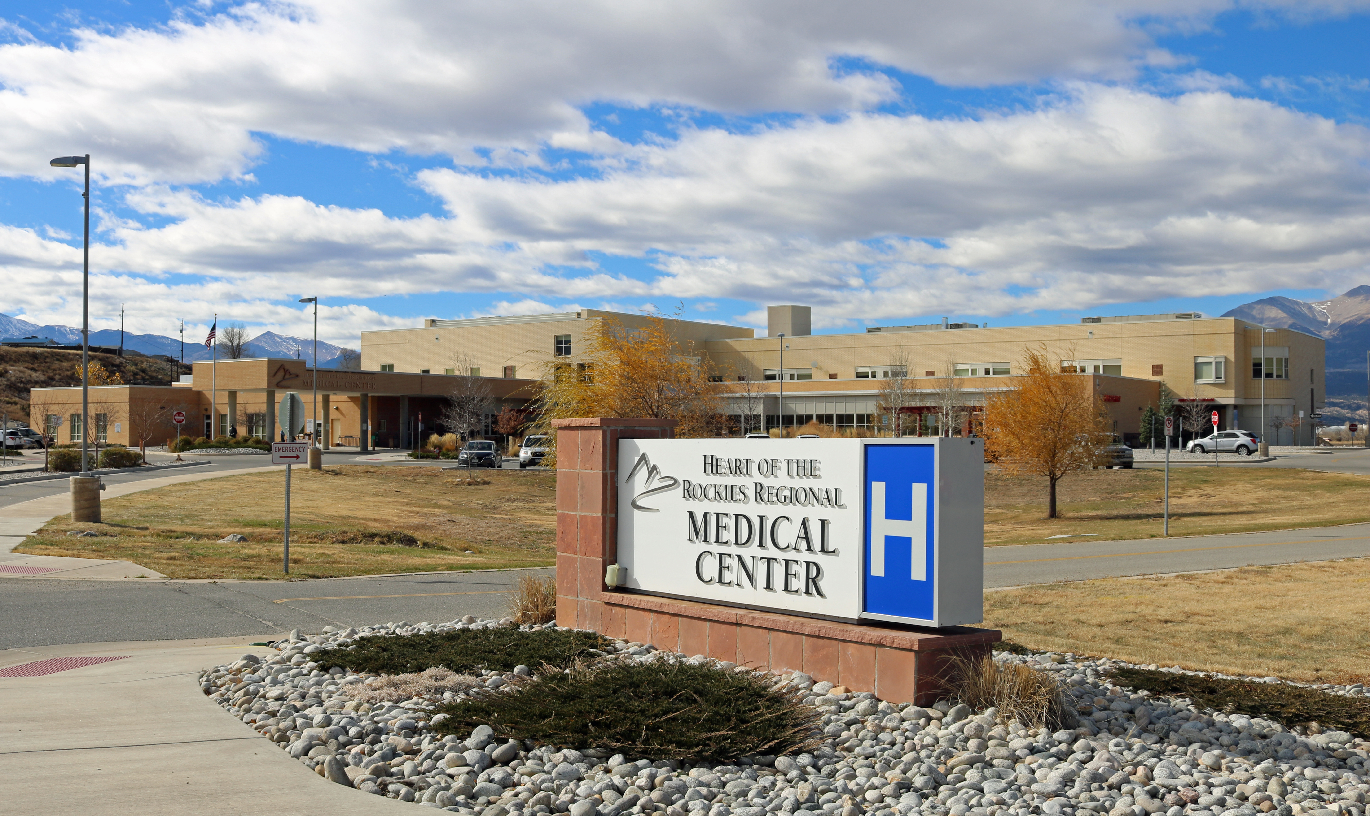 The Heart of the Rockies Regional Medical Center, located at 1000 Rush Drive in Salida, Colorado.